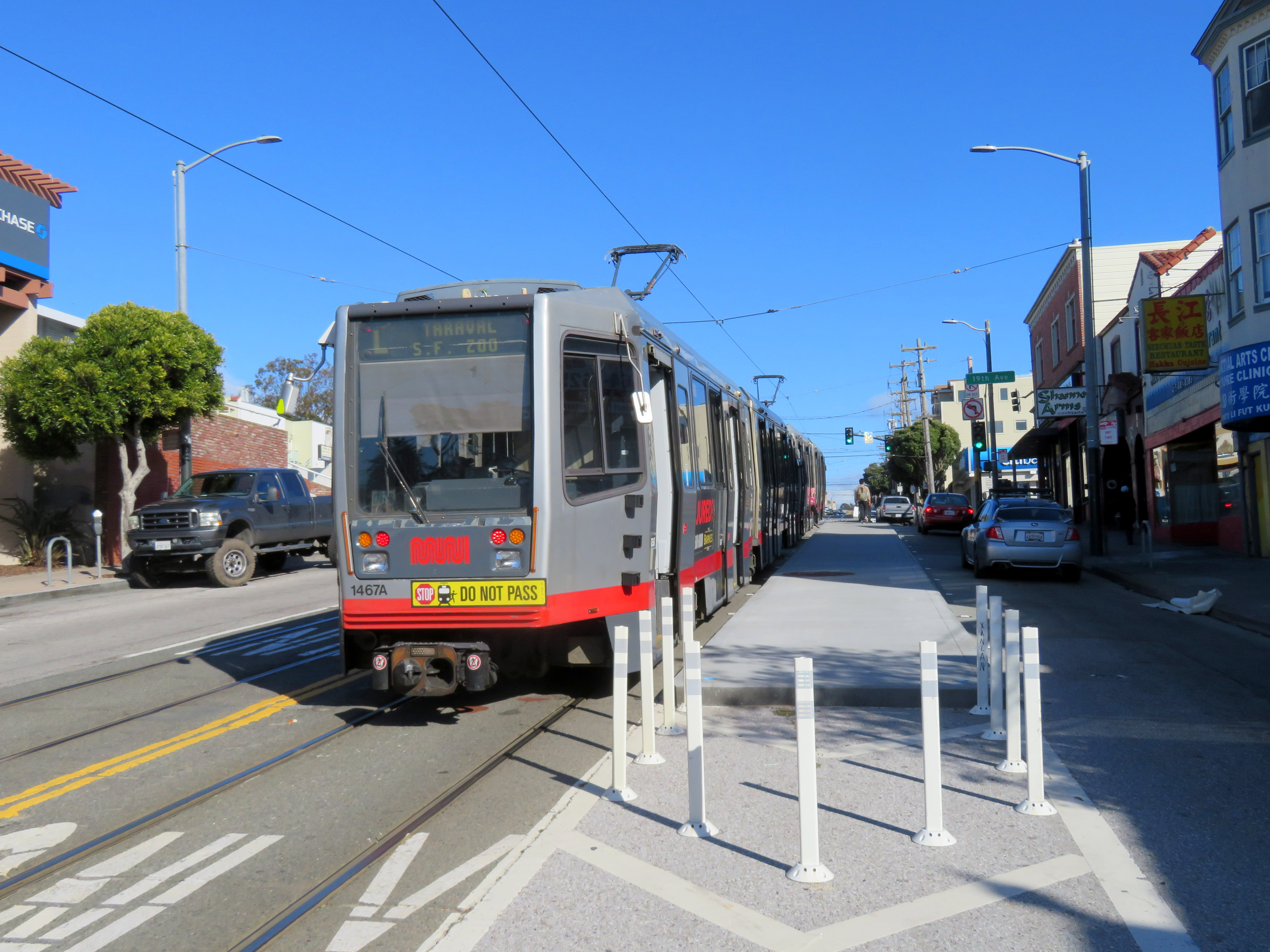 An inbound train at the newly installed platform at Taraval and 19th Avenue station in February 2019